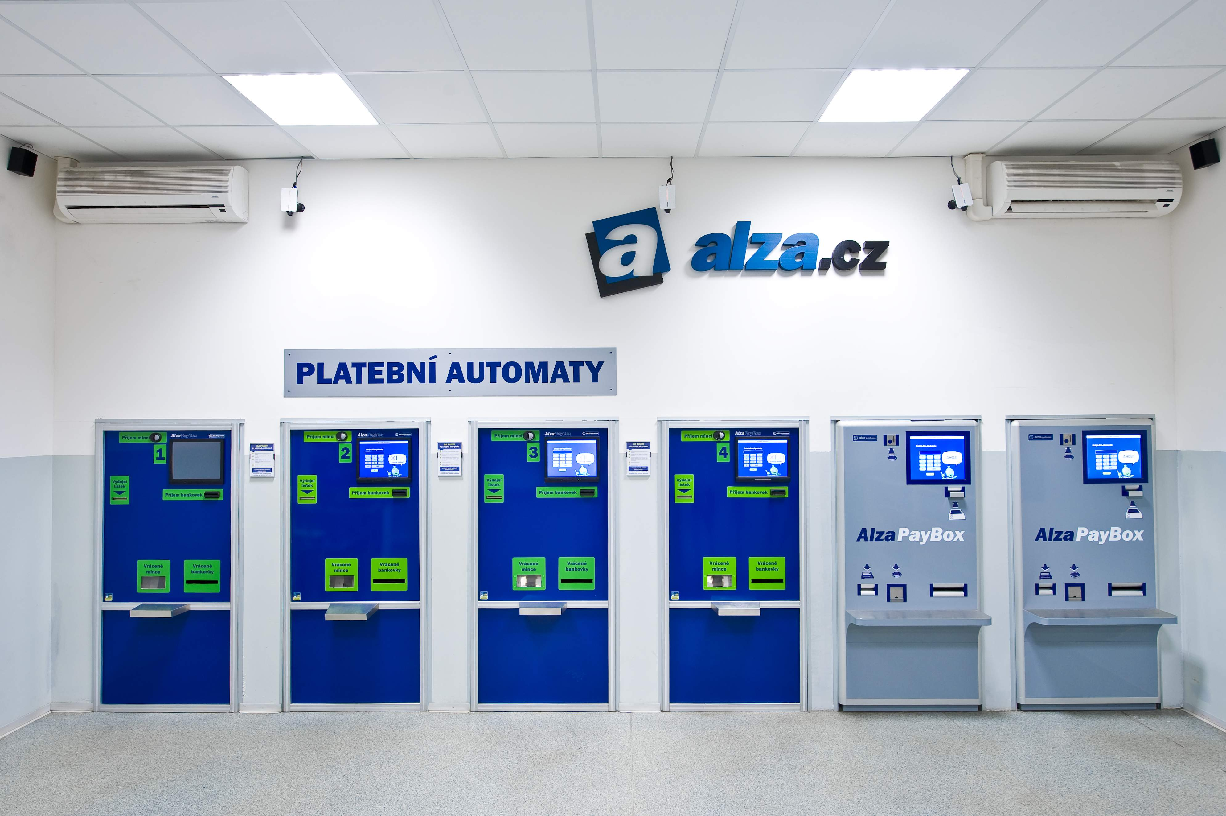 photo of payboxes